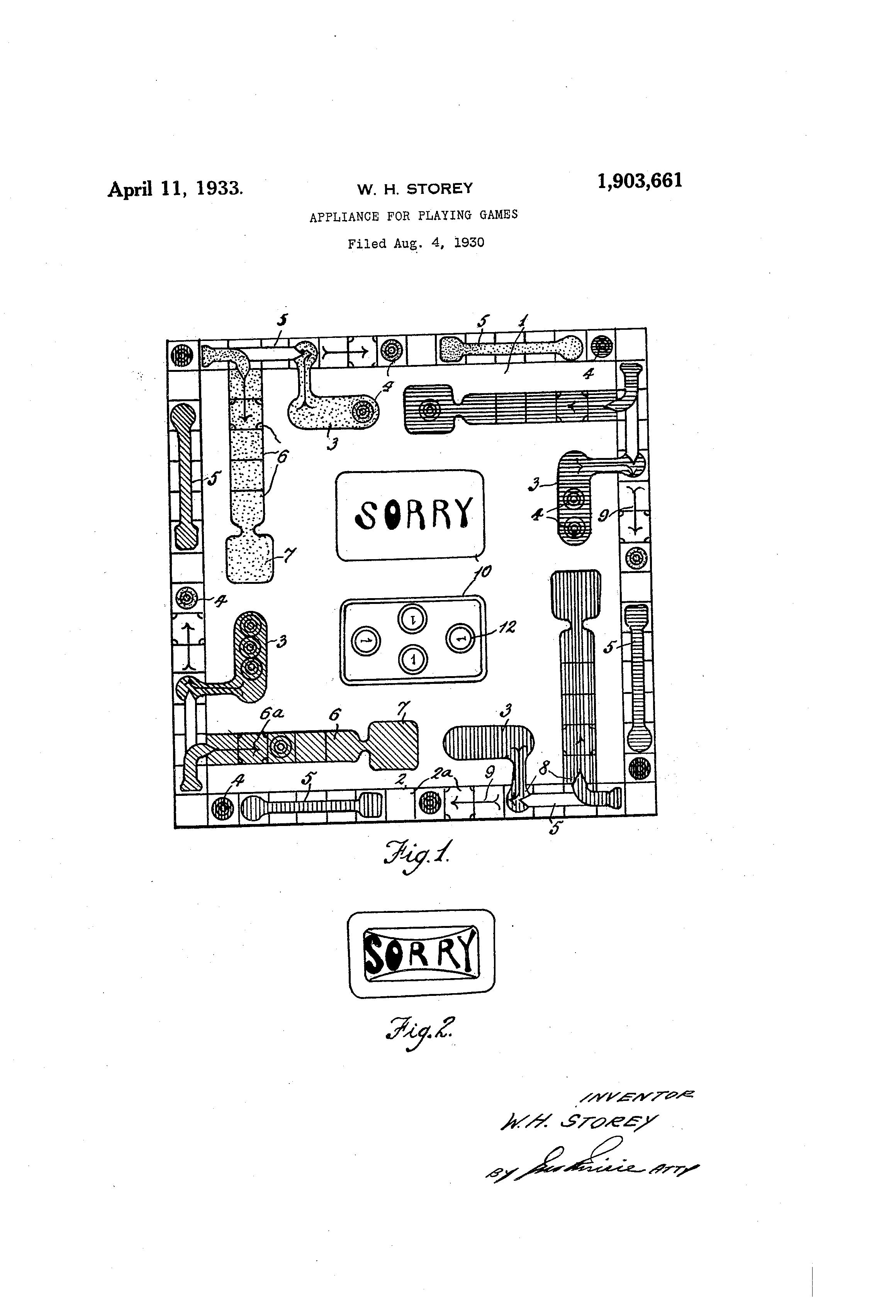 Patent drawings from U.S. patent for the board game Sorry!, filed 1930-08-04 and granted 1933-04-11.